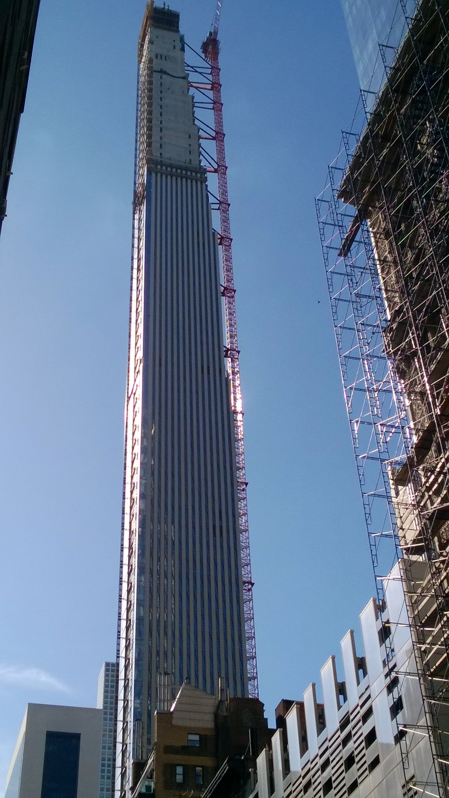 Ongoing construction of 111 West 57th Street in New York City on May 25, 2019.